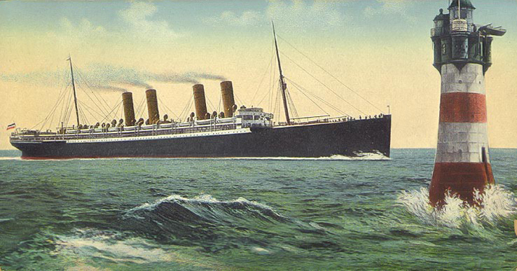 SS Kronprinz Wilhelm. Colored postcard, featuring an image of the liner at sea. Postcard was published by Alb. Rosenthal, Bremen, Germany. Collection of Paul F. Wangerin, 1975. U.S. Naval Historical Center Photograph